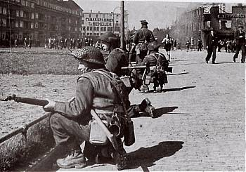 Canadian soldiers in Groningen during the Battle of Groningen in april, 1945; "Tabaksfabriek Th Niemeyer" in the background.